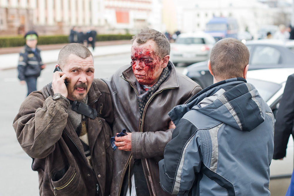 A wounded man is cared by people after the deadly bomb blast in Minsk metro.